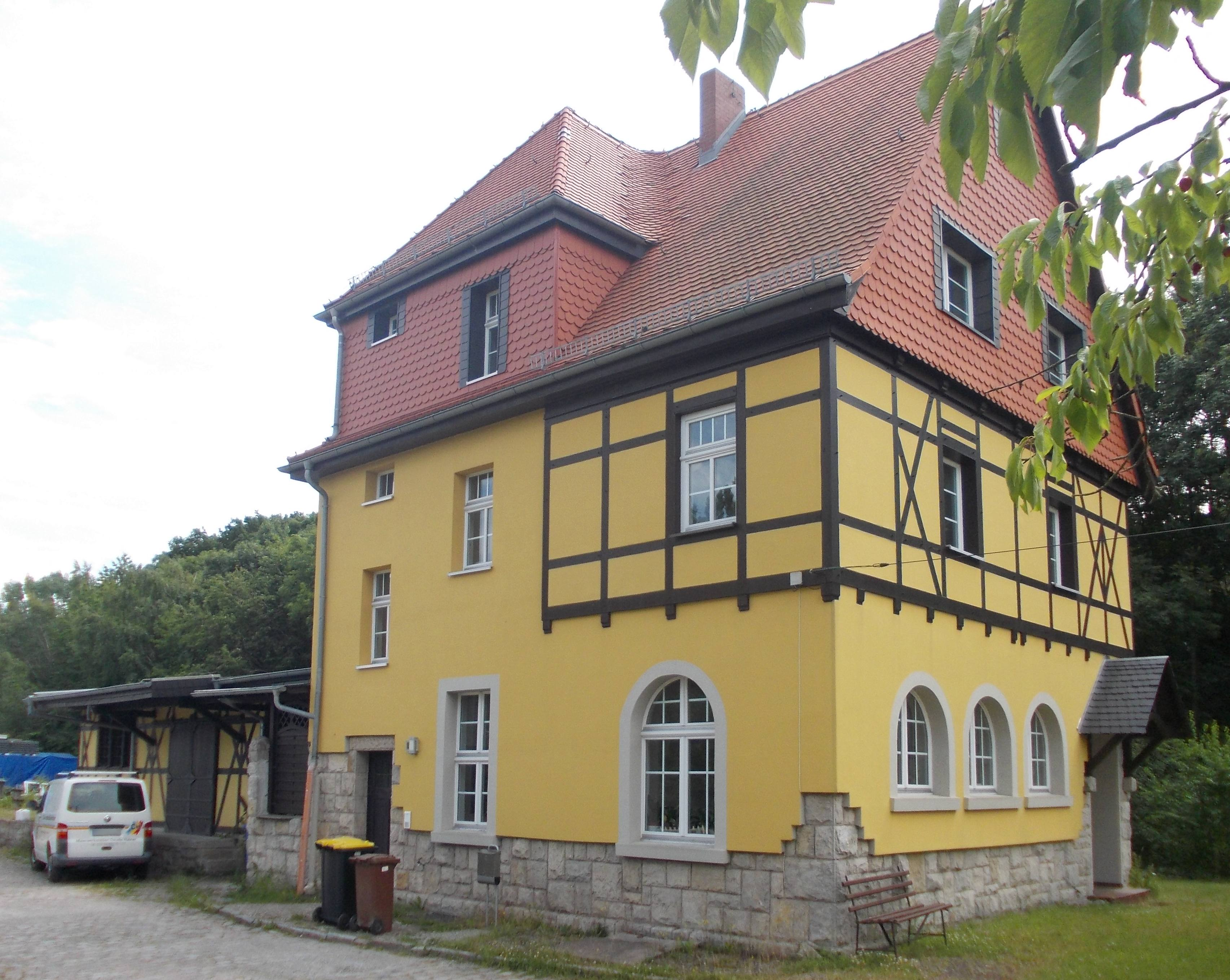 Former Saubach (Thür) train station of the Finne railway line (Finneland, district: Burgenland, Saxony-Anhalt)